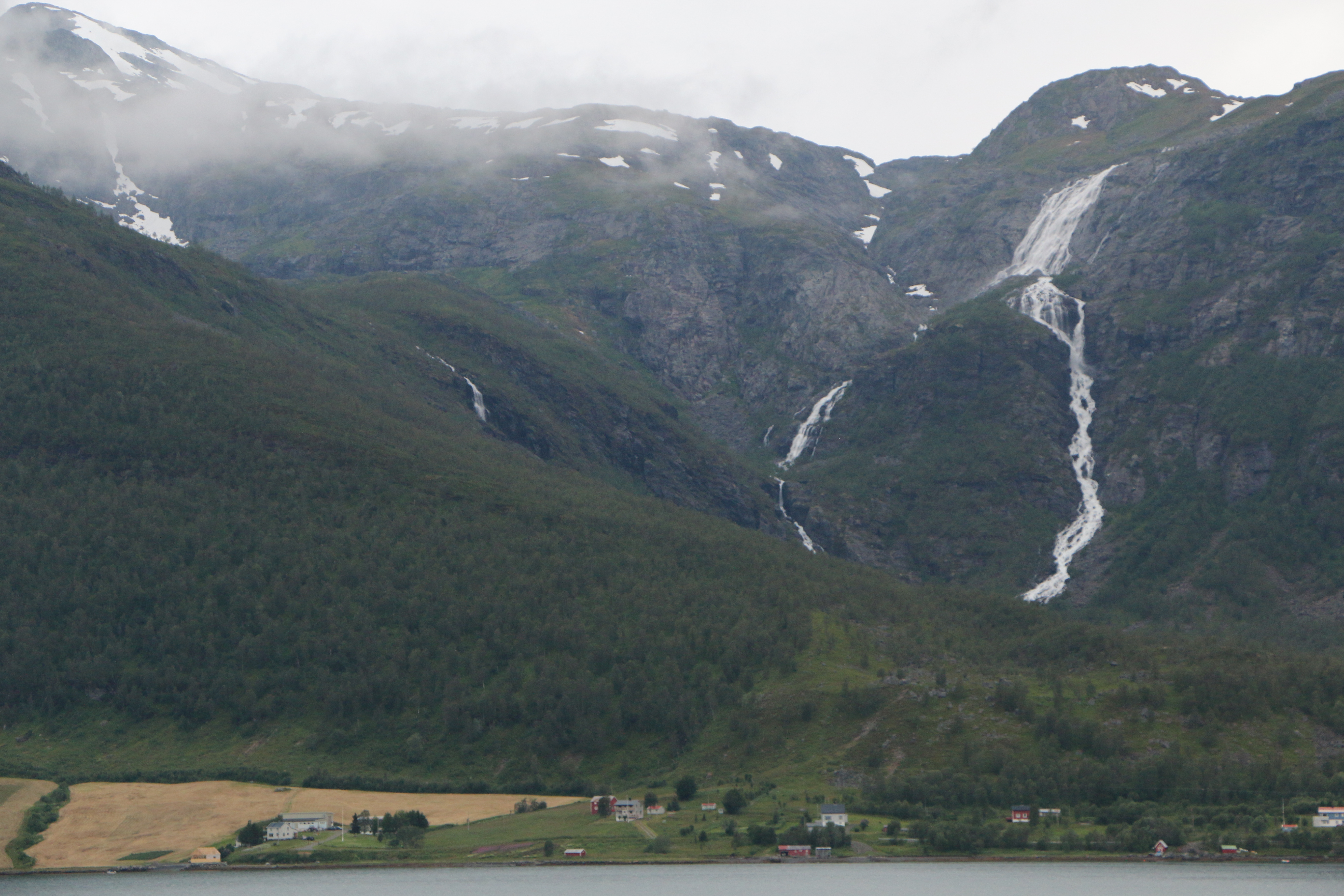 The waterfall Stordalsfossen in Ullsfjord, Tromsø, Norway